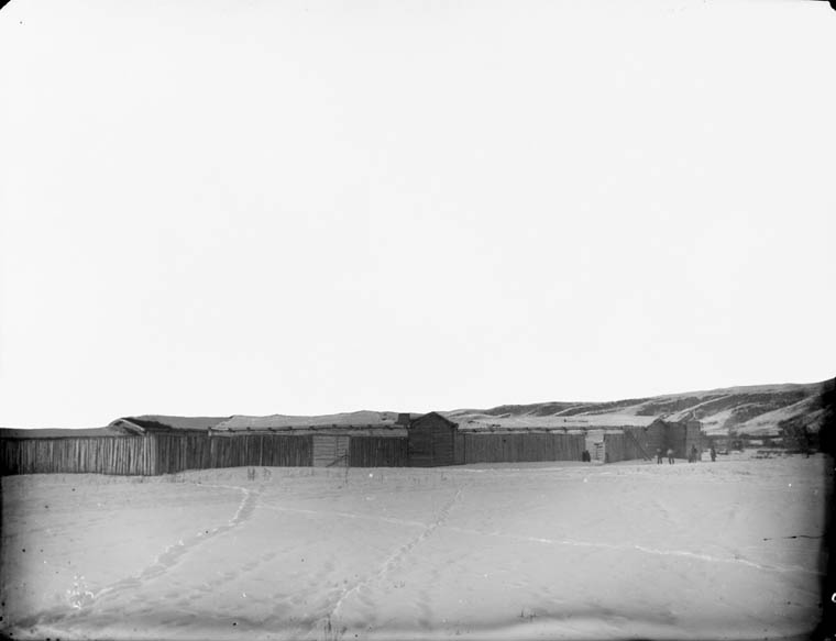 Fort Whoop-Up, Alberta, 20 October 1881